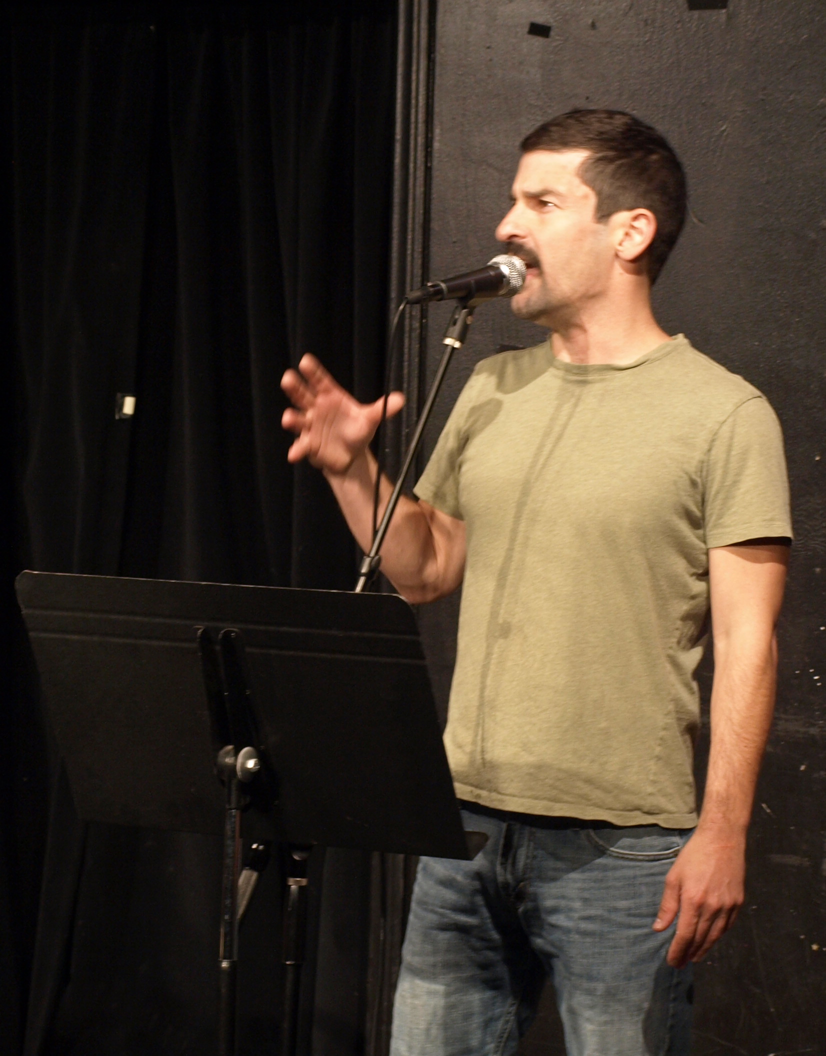 Actor Robert Ben Garant March 22, 2009 performing stand-up comedy at the Upright Citizens Brigade Theater in Los Angeles, CA.